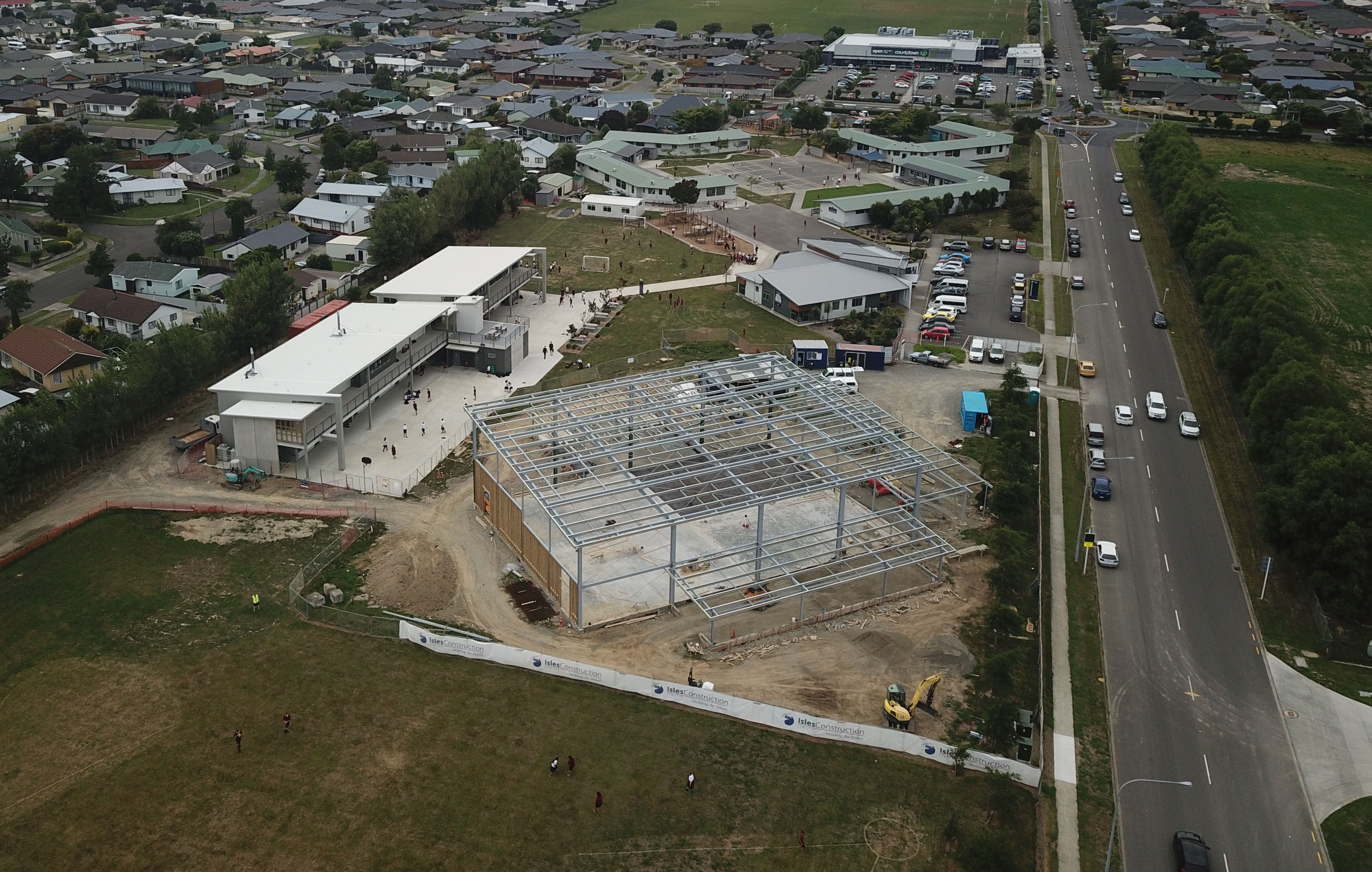 Cornerstone Christian School - From south west, approximate 60m elevation. Taken March 2018 by Drone. Showing Gymnasium (Bottom) H and G Block (Far Left, white roofs), Admin Block (Middle right, grey roofs), A D and C Blocks (Top, green roofs)